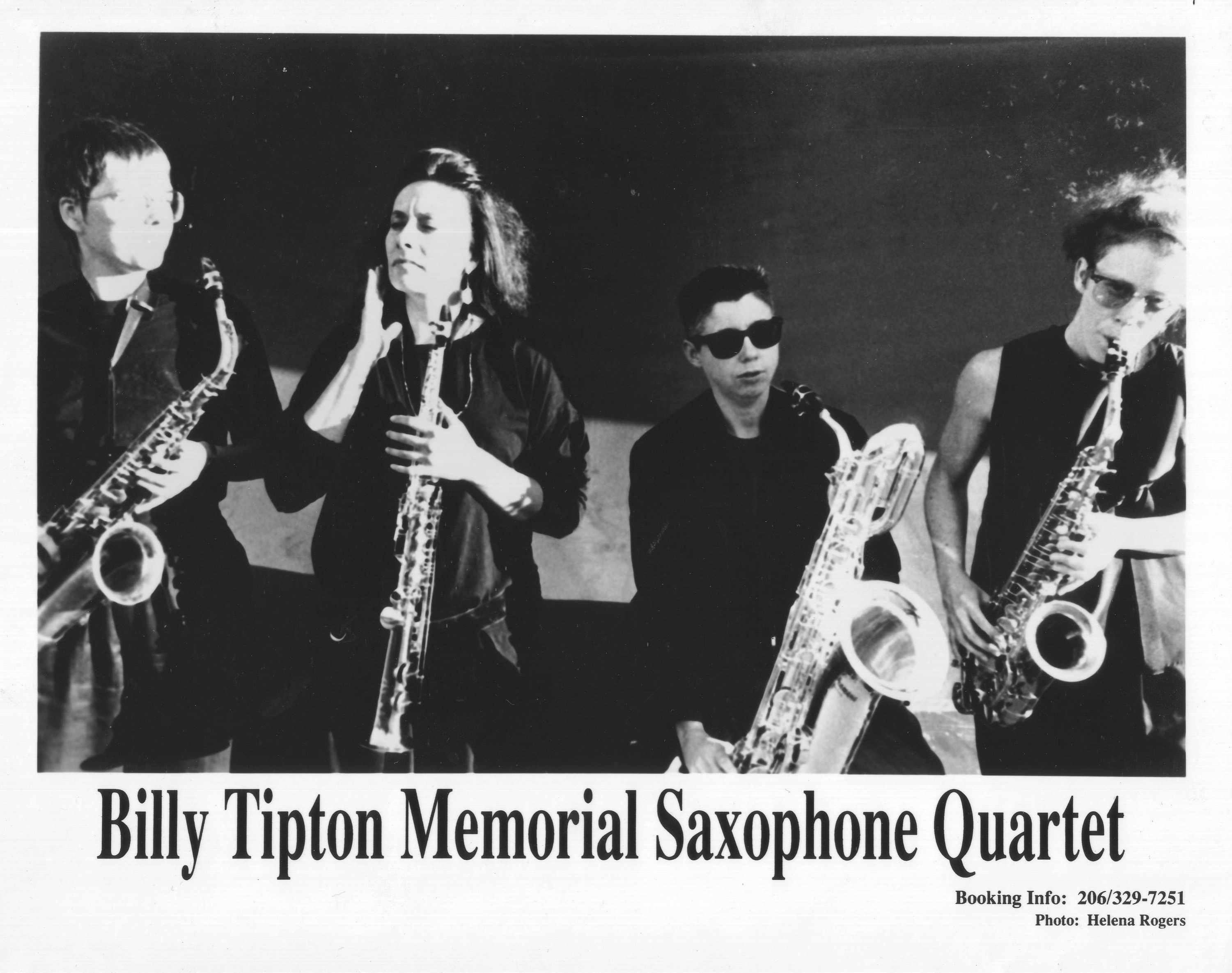 The Billy Tipton Memorial Saxophone Quartet, circa 1989. Co-founded by Marjorie de Muynck and John Otto (formerly, Babs Helle). This was the first stable personnel configuration of the BTMSQ, existing from 1988-1990. L-R: Stacy Loebs (alto sax, tenor sax), Marjorie de Muynck (soprano sax, tenor sax), John Otto (baritone sax), Amy Denio (alto sax).